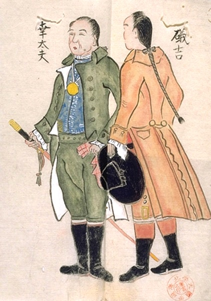 Kodayu-Isokichi_Two_Japanese_casteways_returned_by_Laxman_1792.